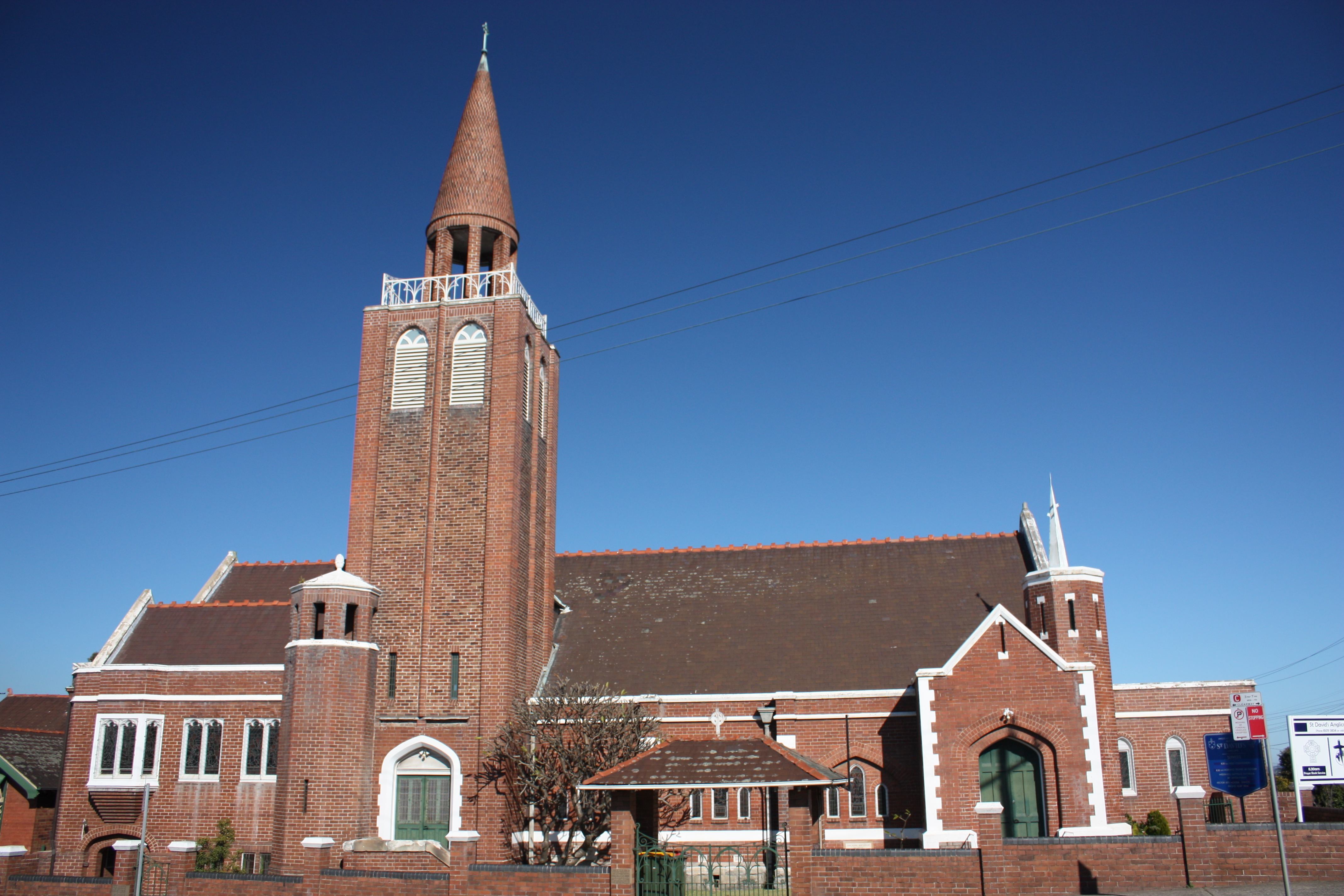 St David's Anglican Church, Arncliffe Anglican Church, Bayside Anglican Church